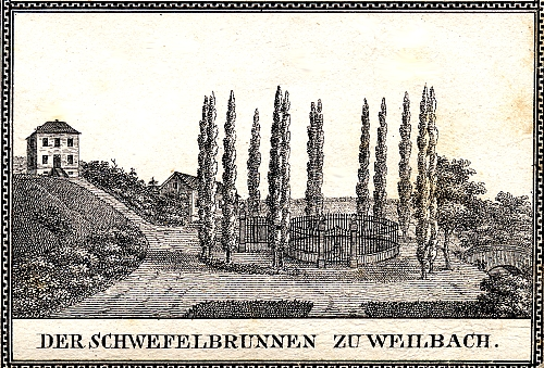 Illustration of the spring of Bad Weilbach, ca. 1830, duchy Nassau